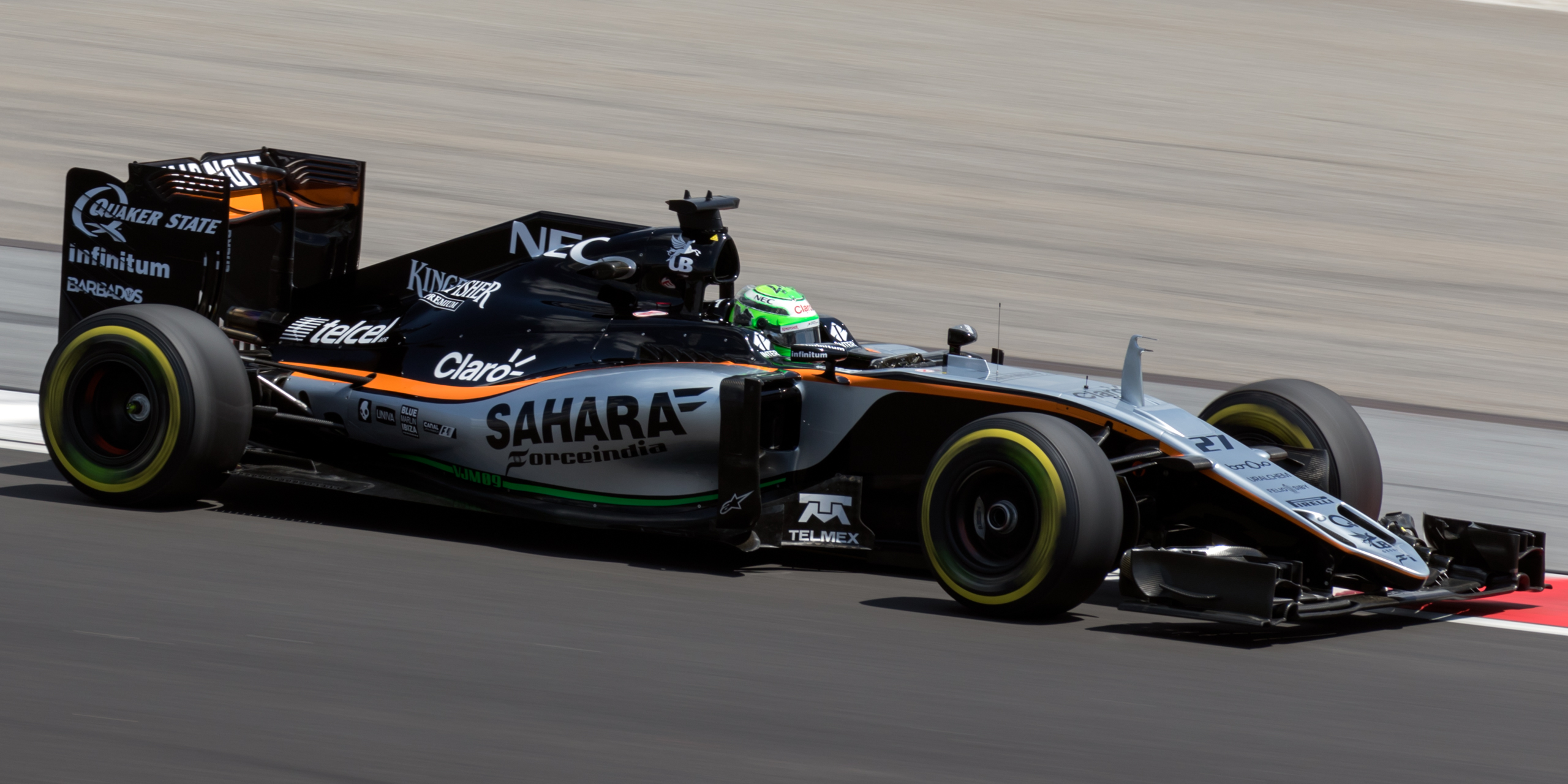 Formula One 2016 Rd.16 Malaysian GP: Nico Hülkenberg (Force India)